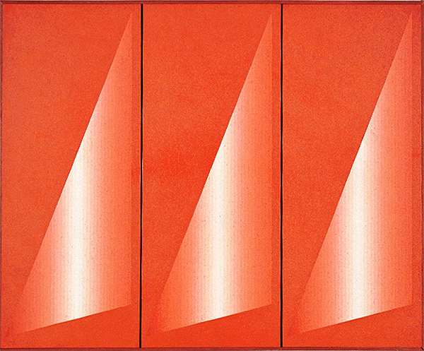 Jader Osório Siqueira: Tríptico I, óleo sobre tela, 1977, acervo do Museu Museu de Arte do Rio Grande do Sul Ado Malagoli, Porto Alegre, Brasil.